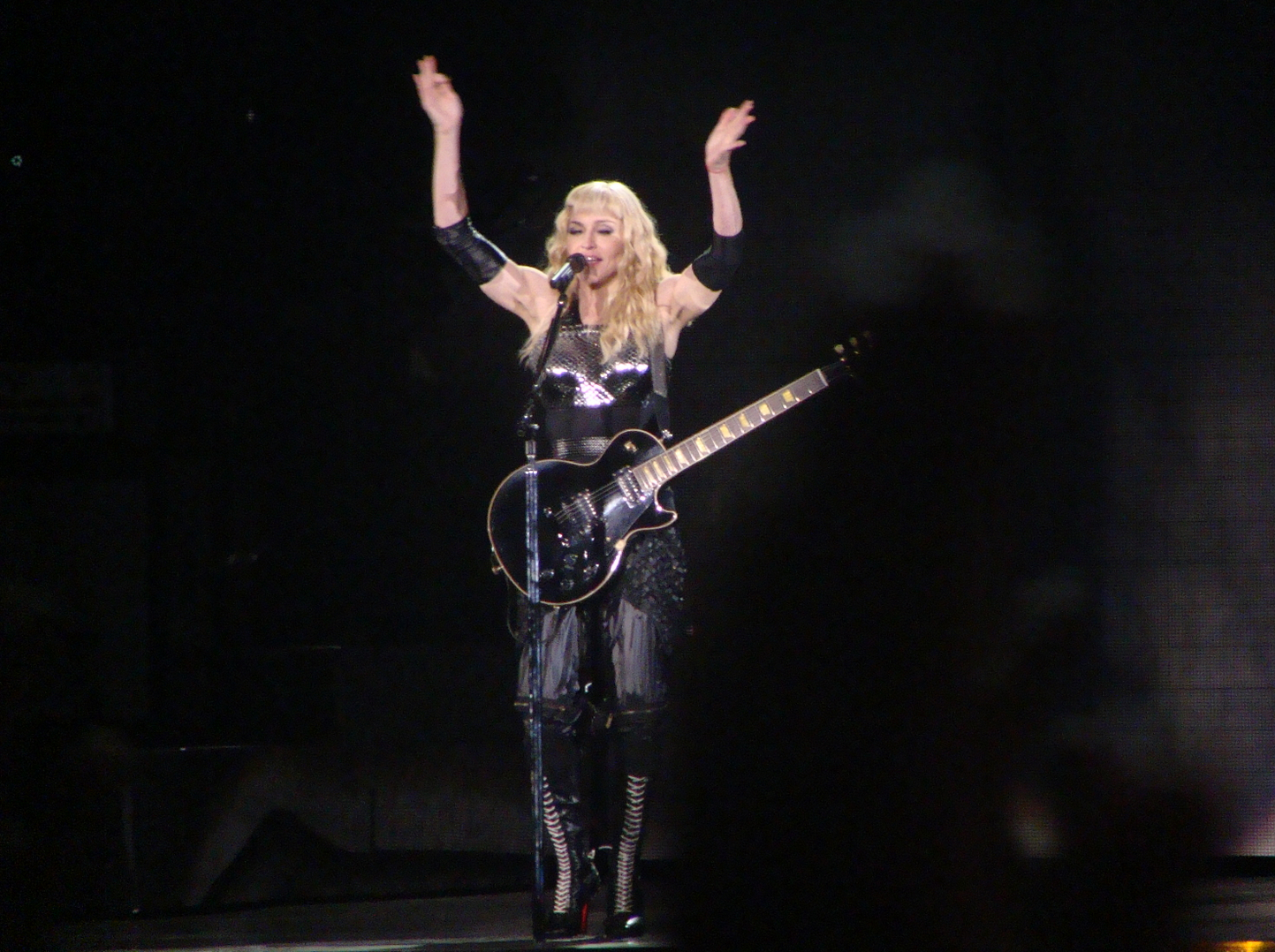 Photo of the concert